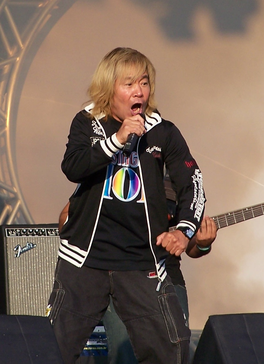 Akira Kushida at Anime Friends 2010 in São Paulo, Brazil